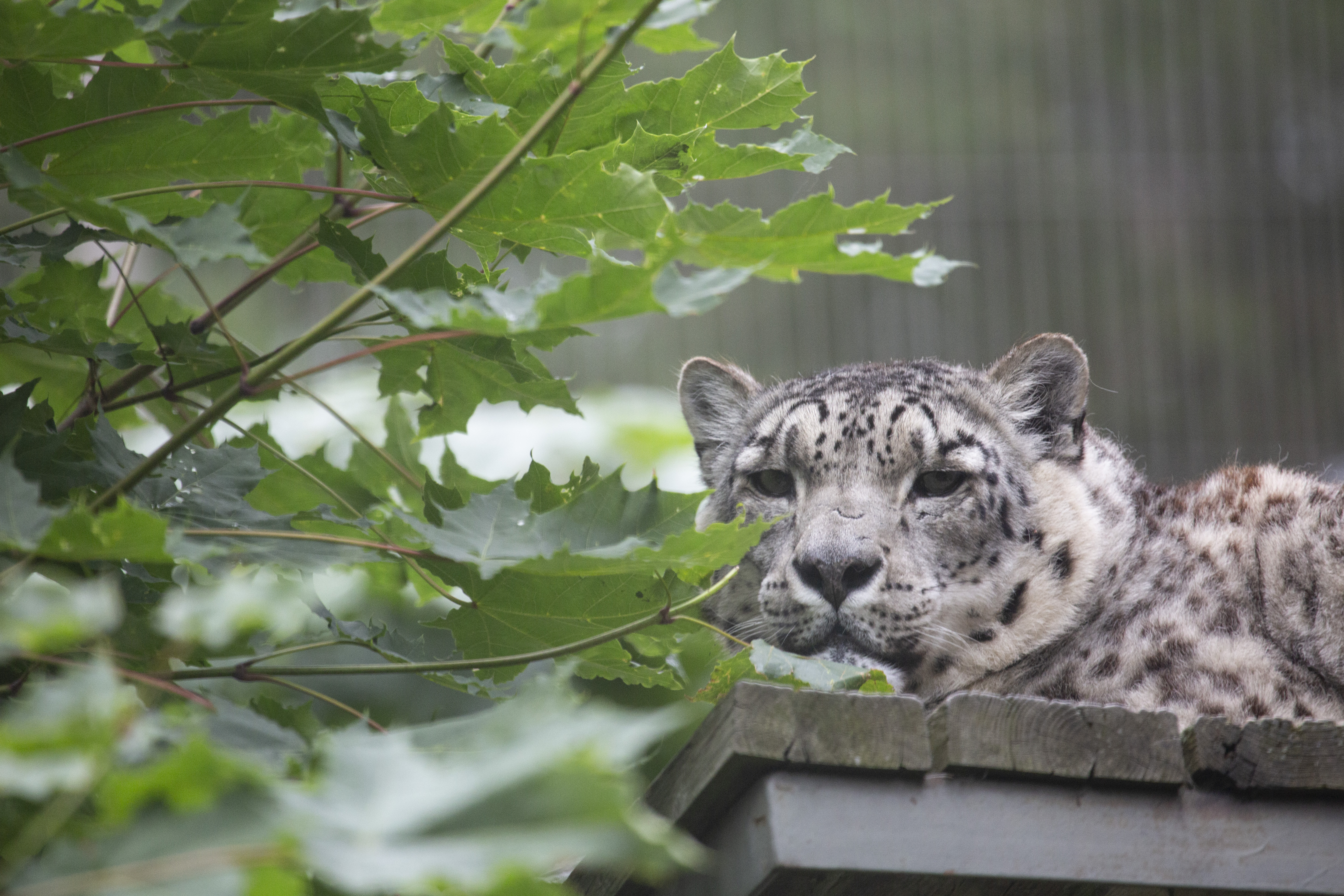 Snow leopard in Korkeasaari Zoo (Helsinki, Finland). Picture by: Annika Sorjonen (2019) / Korkeasaari Zoo